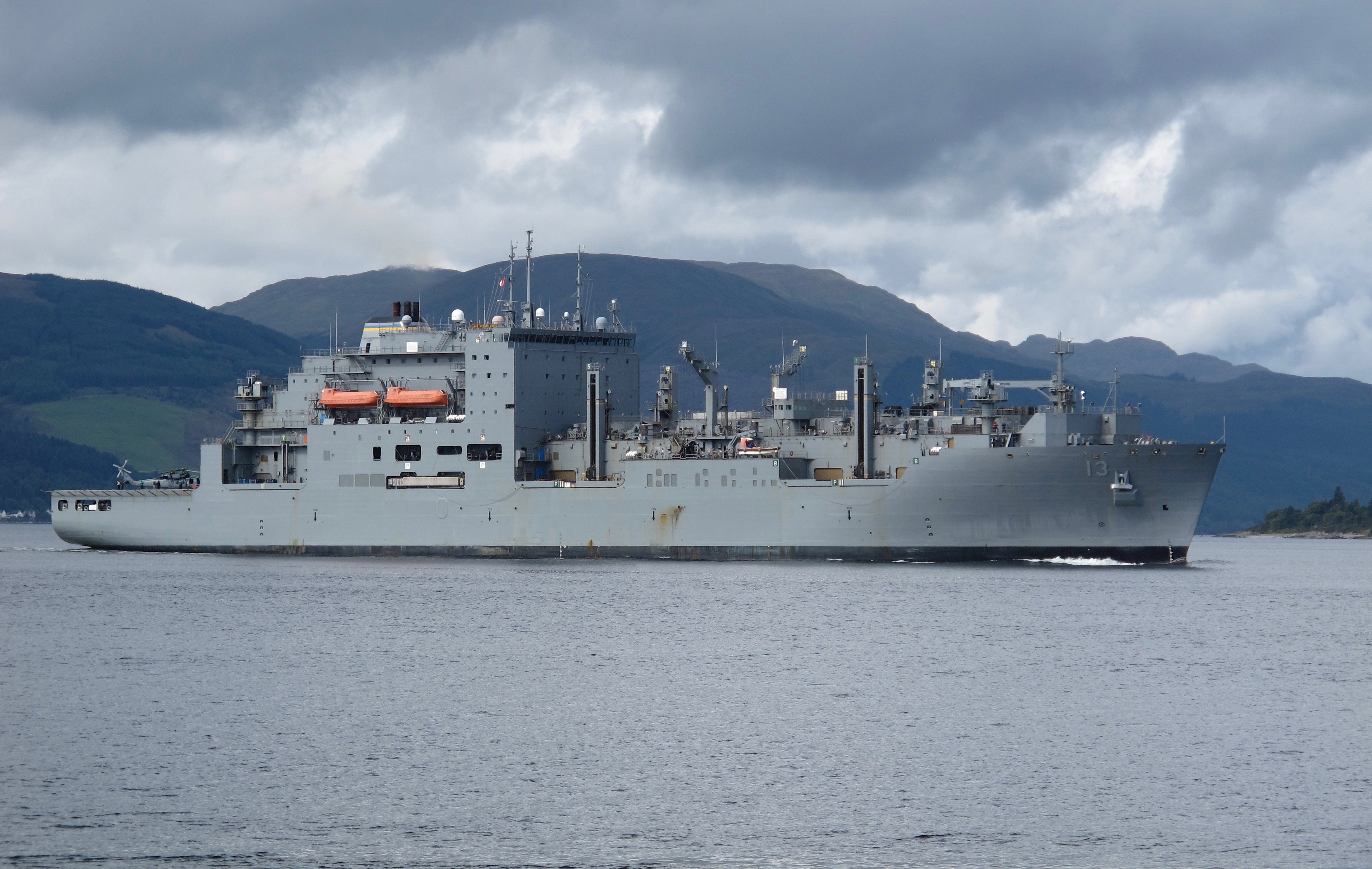 USNS Medgar Evers (T-AKE-13) on the Firth of Clyde, passing the mouth of Loch Long